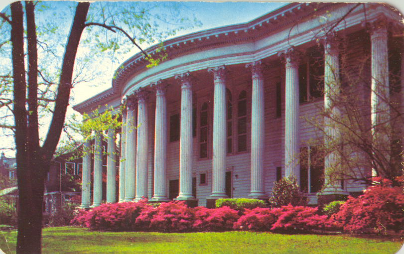 This is the "Home Building" of Washington Seminary, used from 1912-1953, when the school permanently closed.